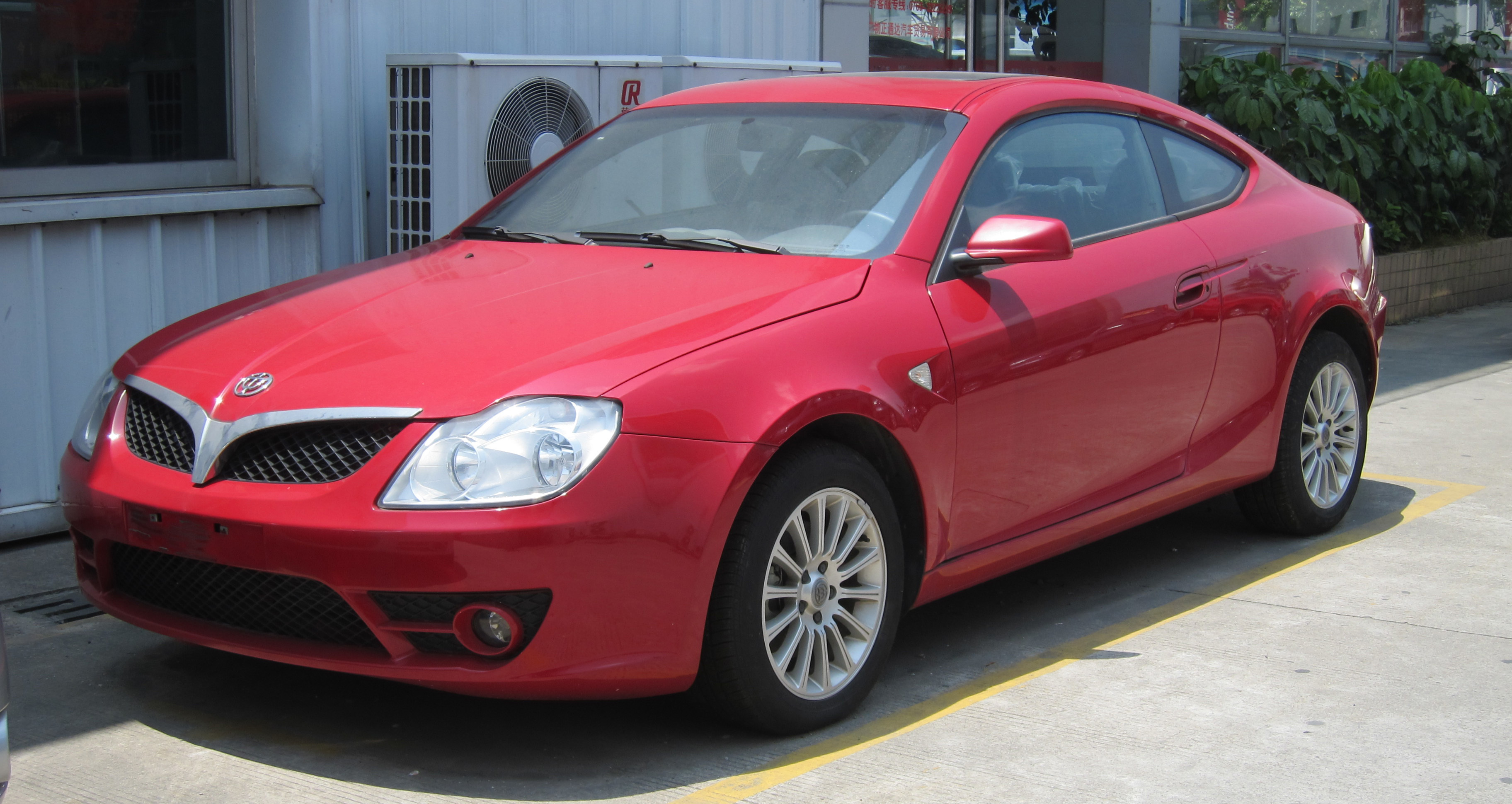 China’s Brilliance Auto 2010 Coupe